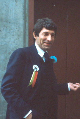 Charles Royer served as mayor of Seattle, Washington from 1978 through 1989. Item 37139, Pike Place Market Visual Images and Audiotapes (Record Series 1628-02), Seattle Municipal Archives.